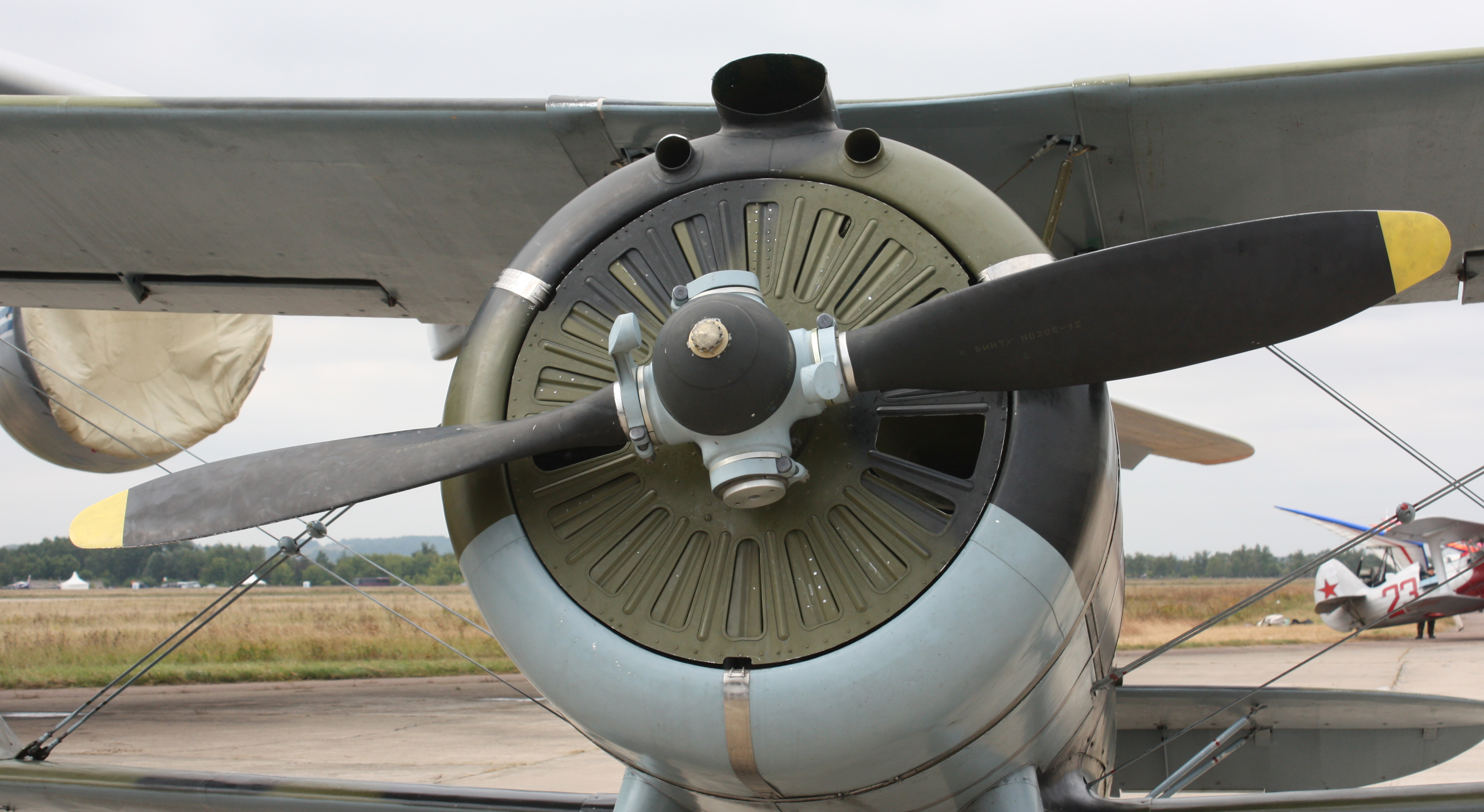 Polikarpov I-15 bis (The international aerospace salon MAKS-2009)